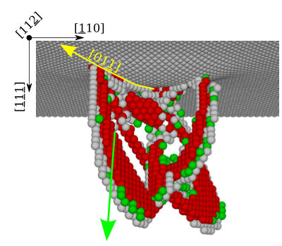 Defects in Metal (Cu) under spherical nanoindentation